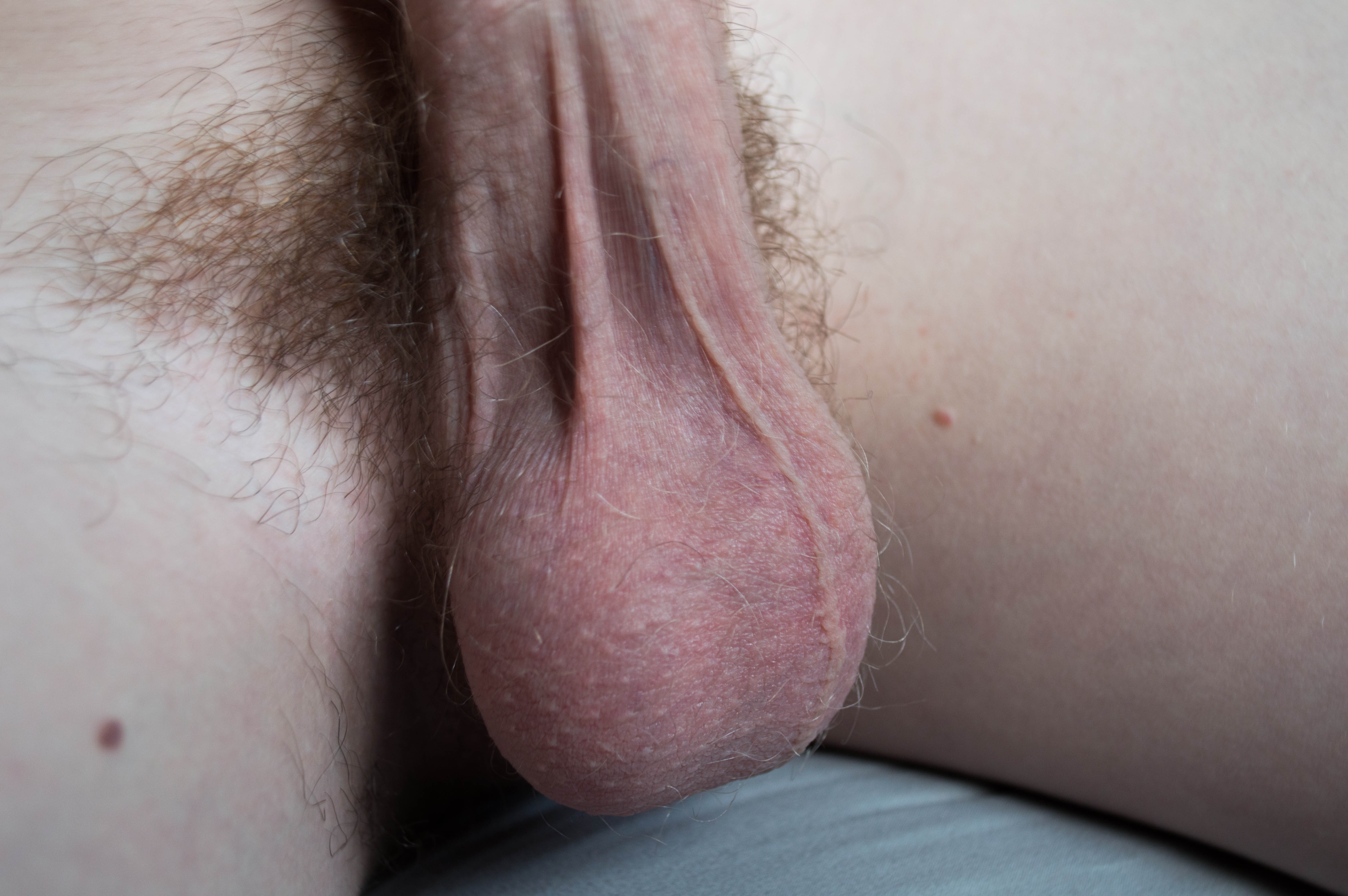 Scrotum